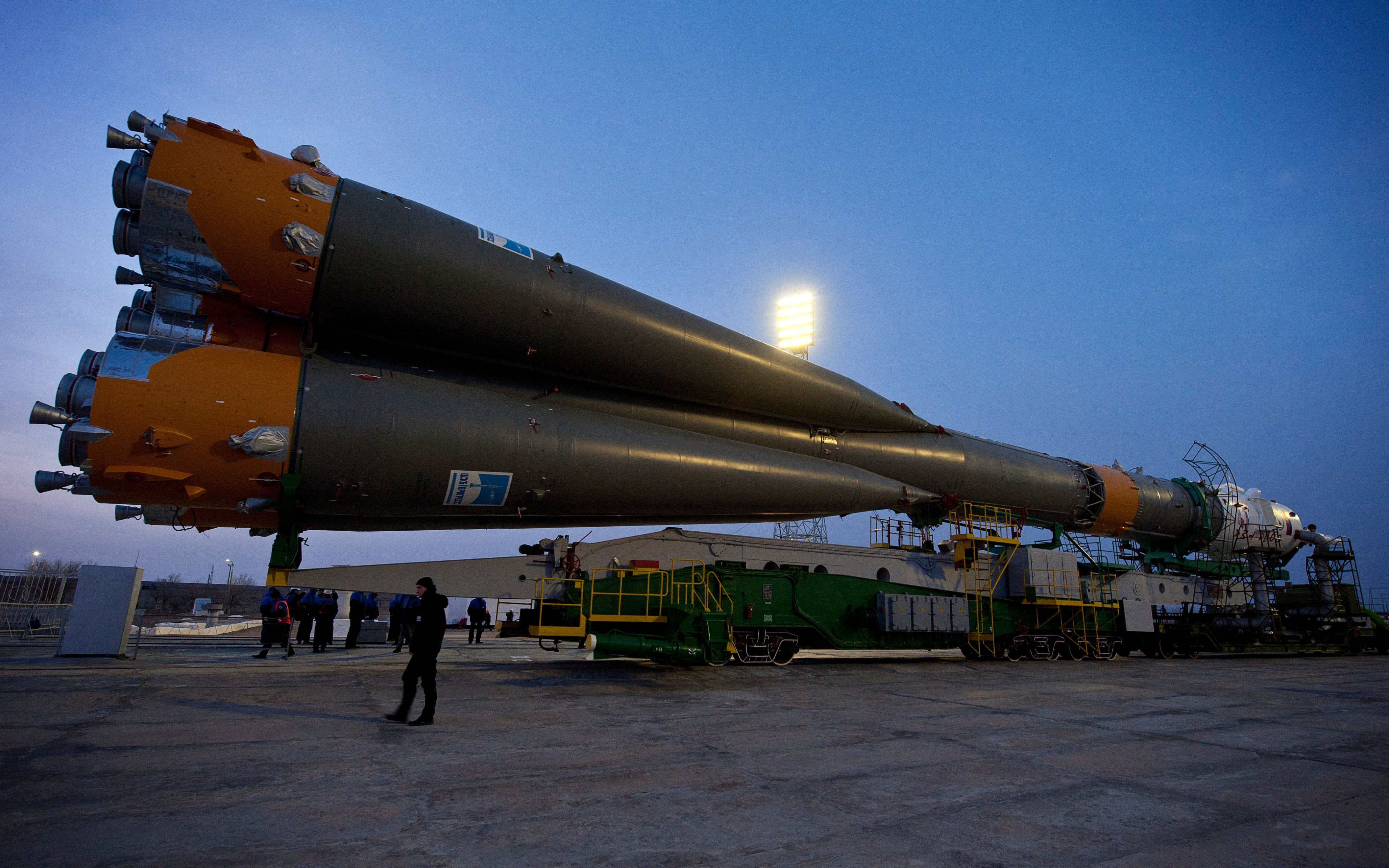 The Soyuz TMA-20 spacecraft arrives at the launch pad Dec. 13, 2010 at the Baikonur Cosmodrome in Kazakhstan. The Soyuz is scheduled to launch the crew of Expedition 26 on Dec. 16, 2010 (Kazakhstan time).